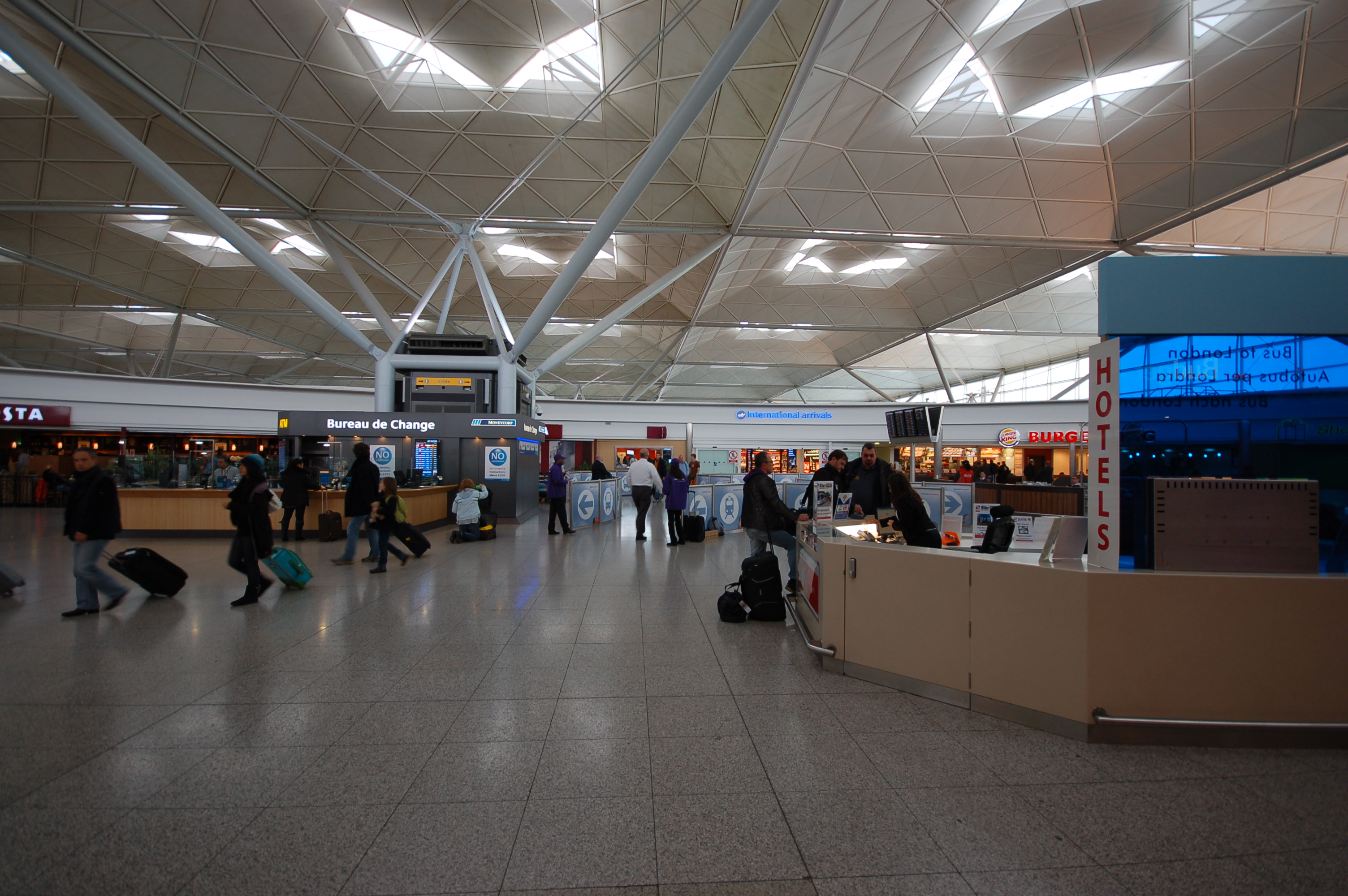 London Stansted Airport